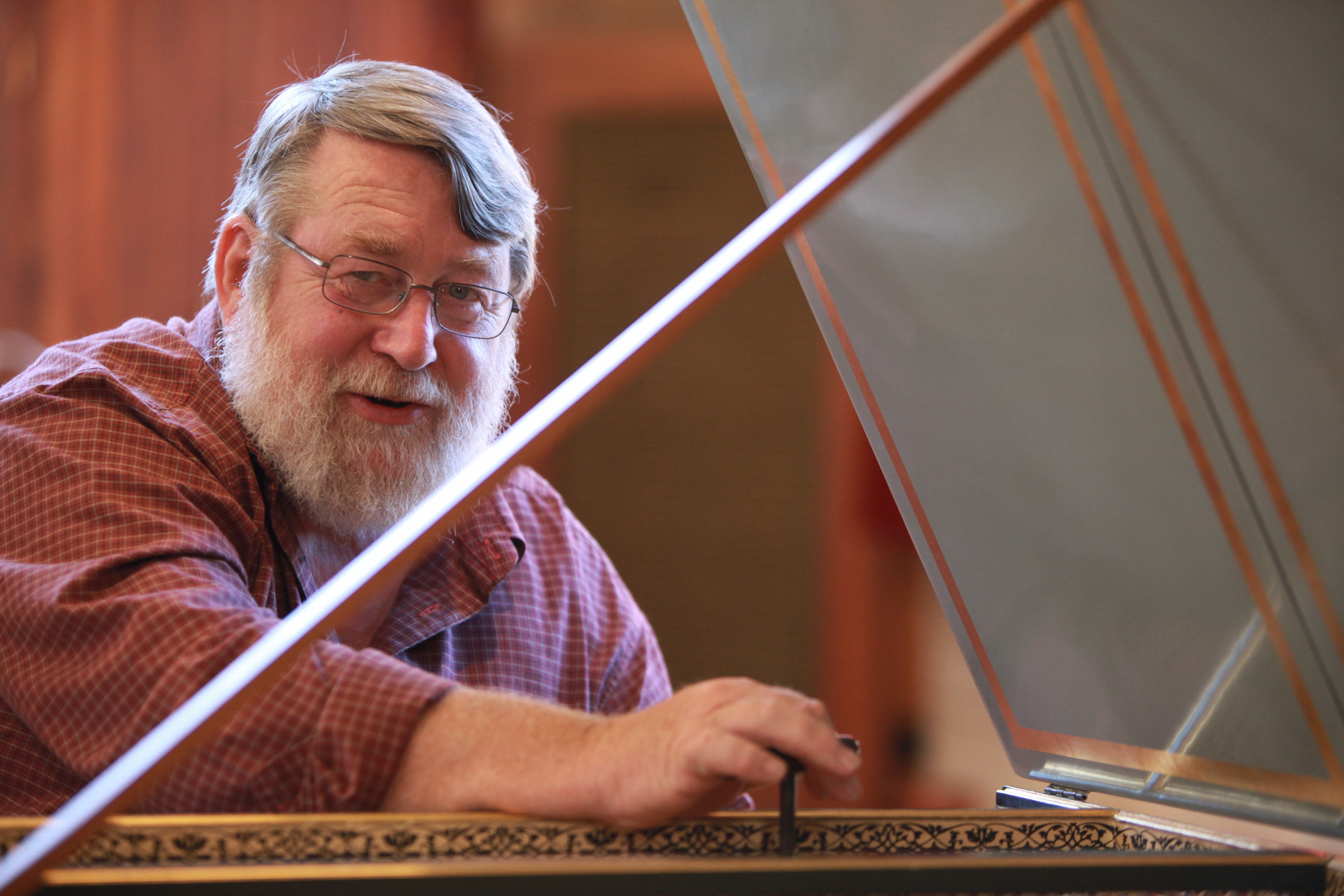 Alastair McAllister prepares harpsichord for Australian Brandenburg Orchestra rehearsal. Sydney, Australia.